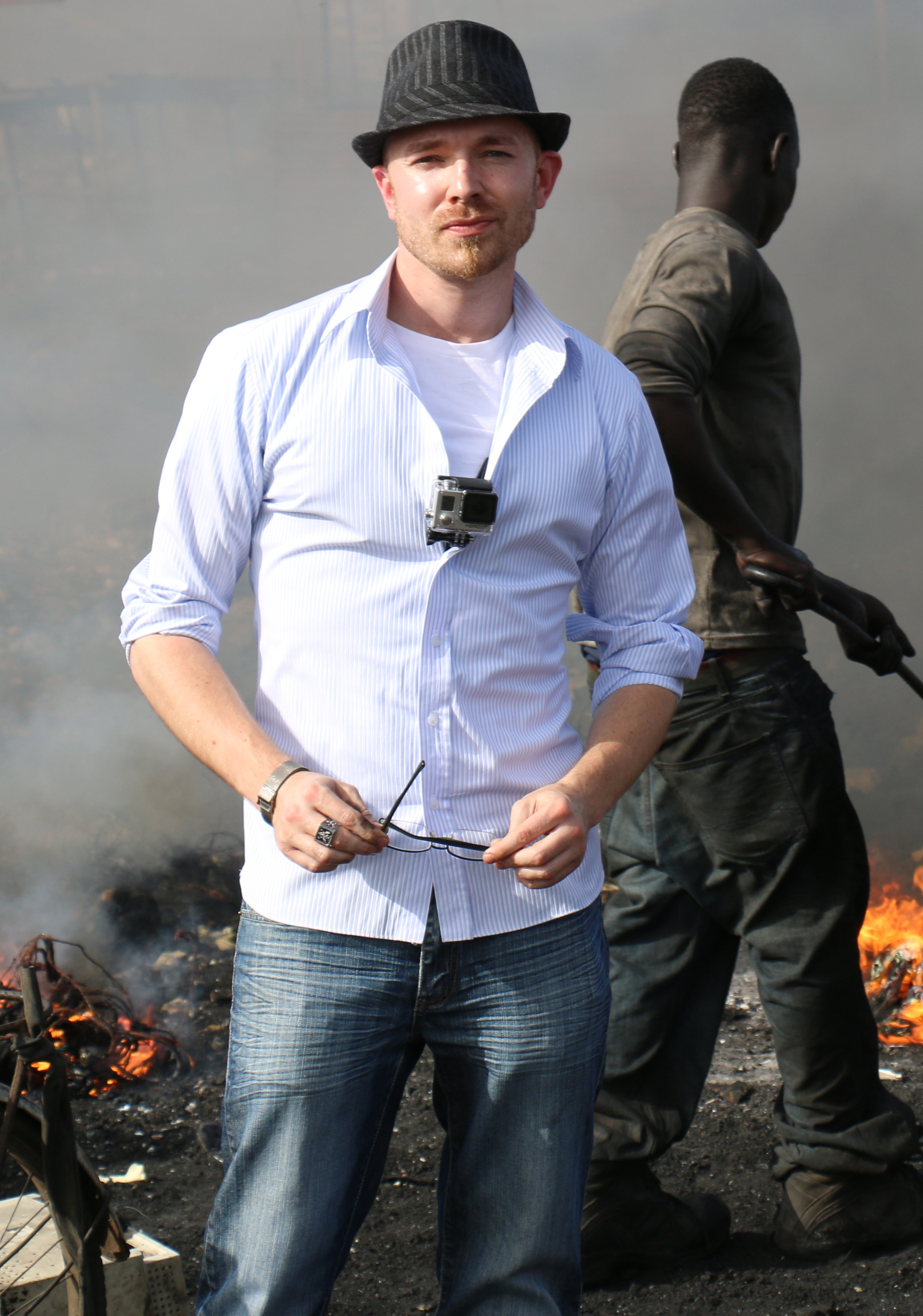 Eric Lundgren on clean up ewaste project in Ghana